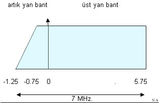 Vestigal sideband modulation of a television signal with 7 MHz bandwidth